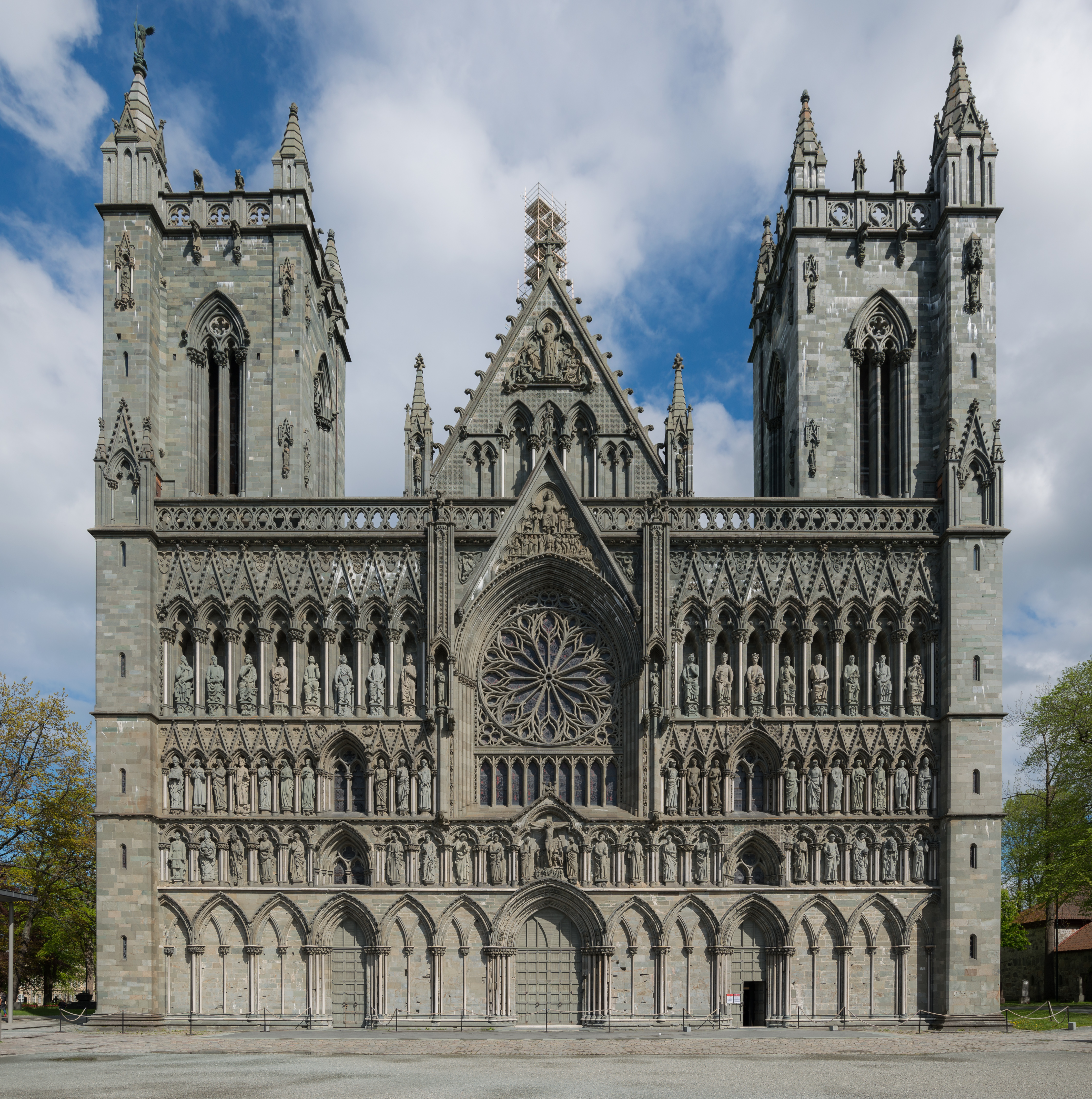 A west view of the Nidaros Cathedral, Trondheim. This facade is the best-known view of the church